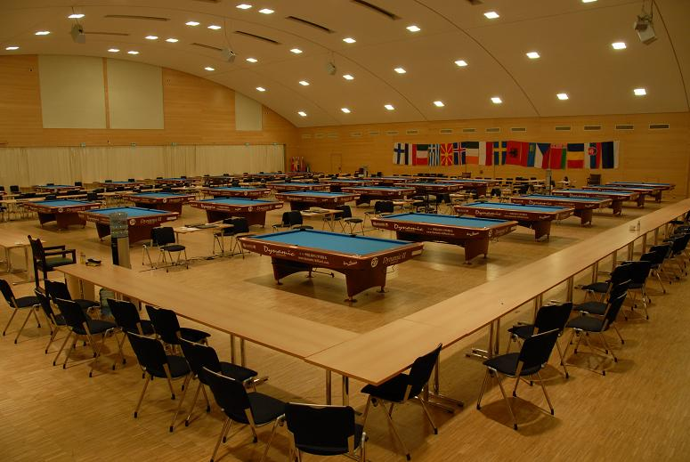 European Pool Championship 2008 in Willingen, Germany